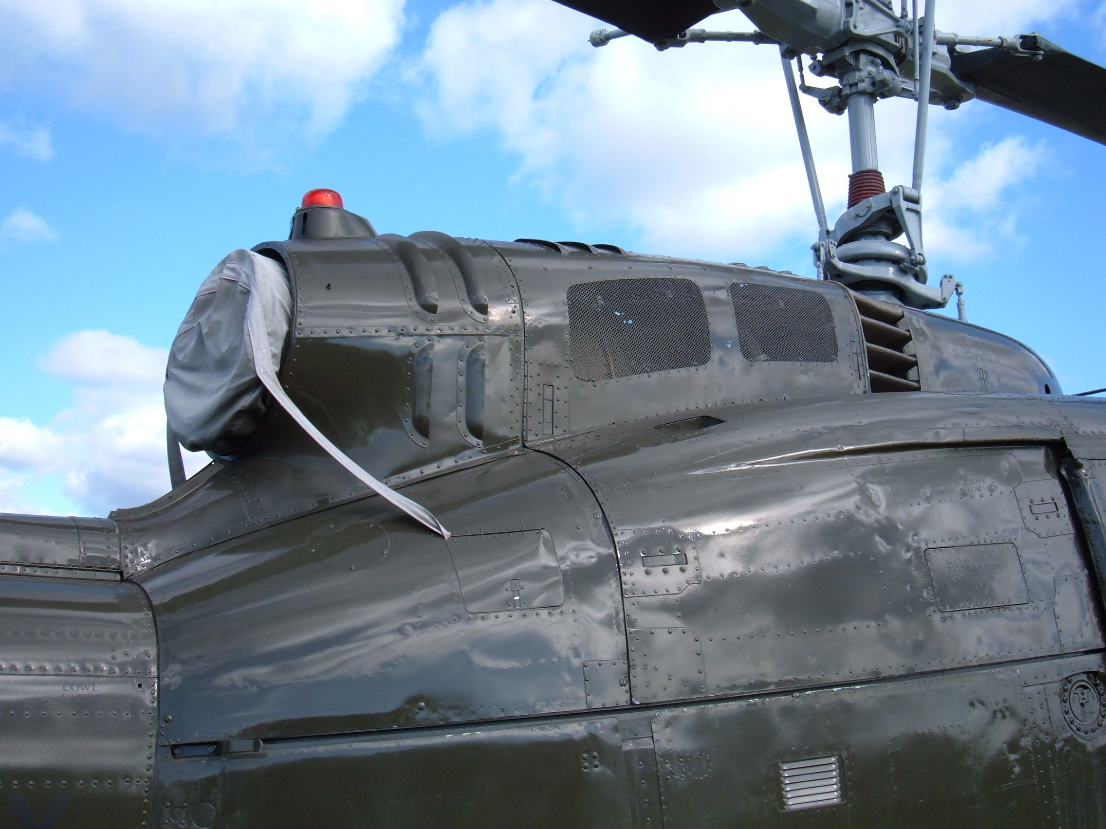 A UH-1H at the Pacific Coast Air Museum in Santa Rosa, California